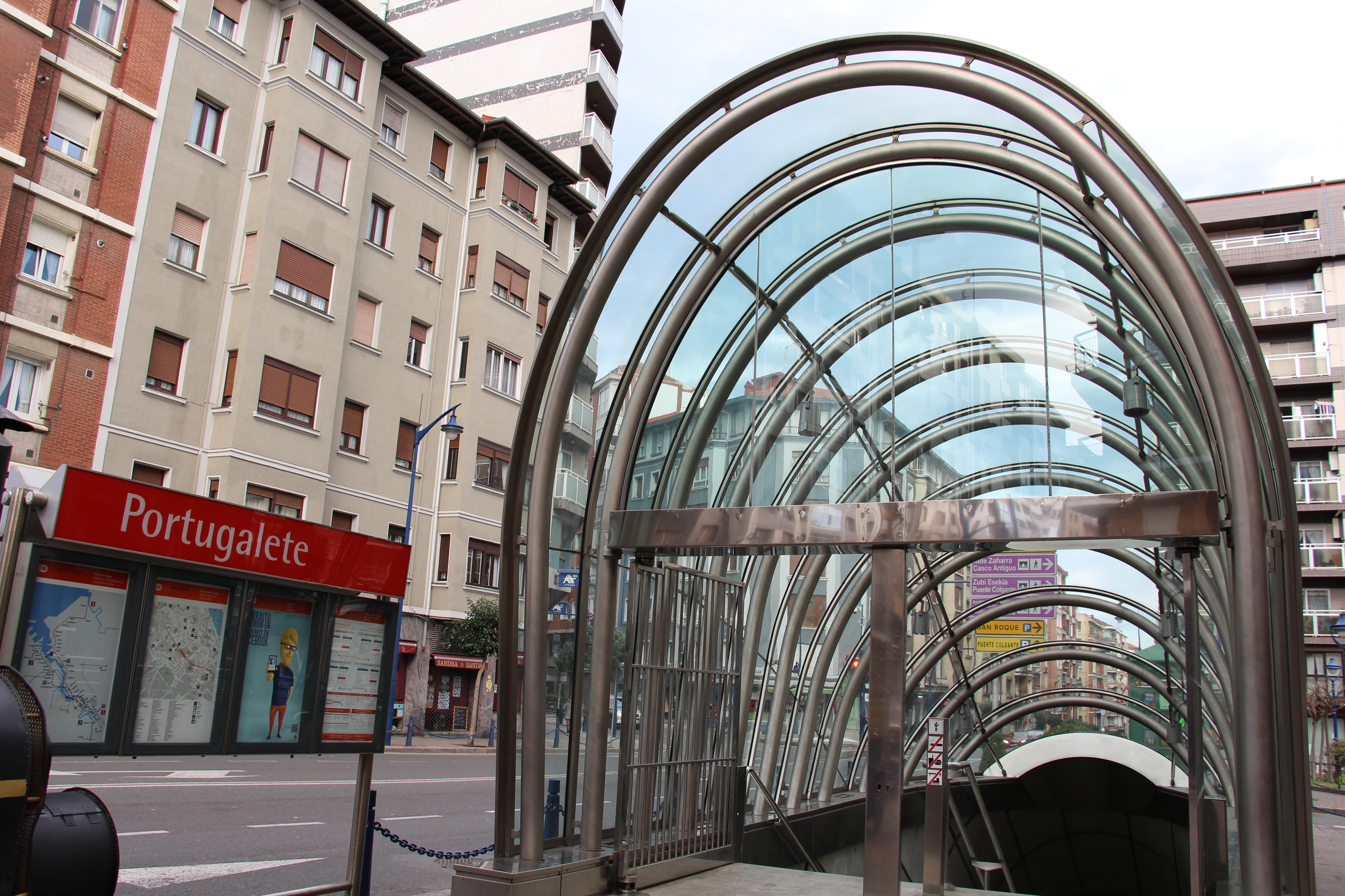 Carlos VII Hiribidea Portugalete Metro station. Arch. Norman Foster 2007.